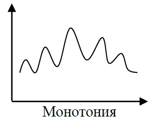 график работоспособности при монотонии